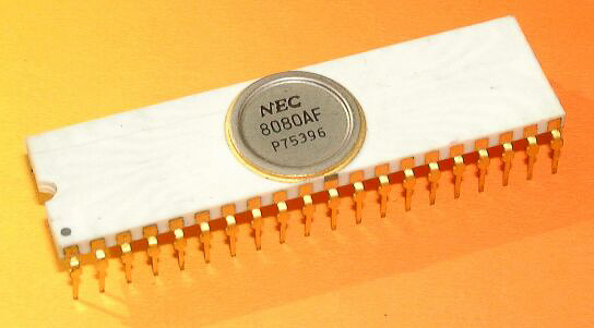 NEC 8080AF